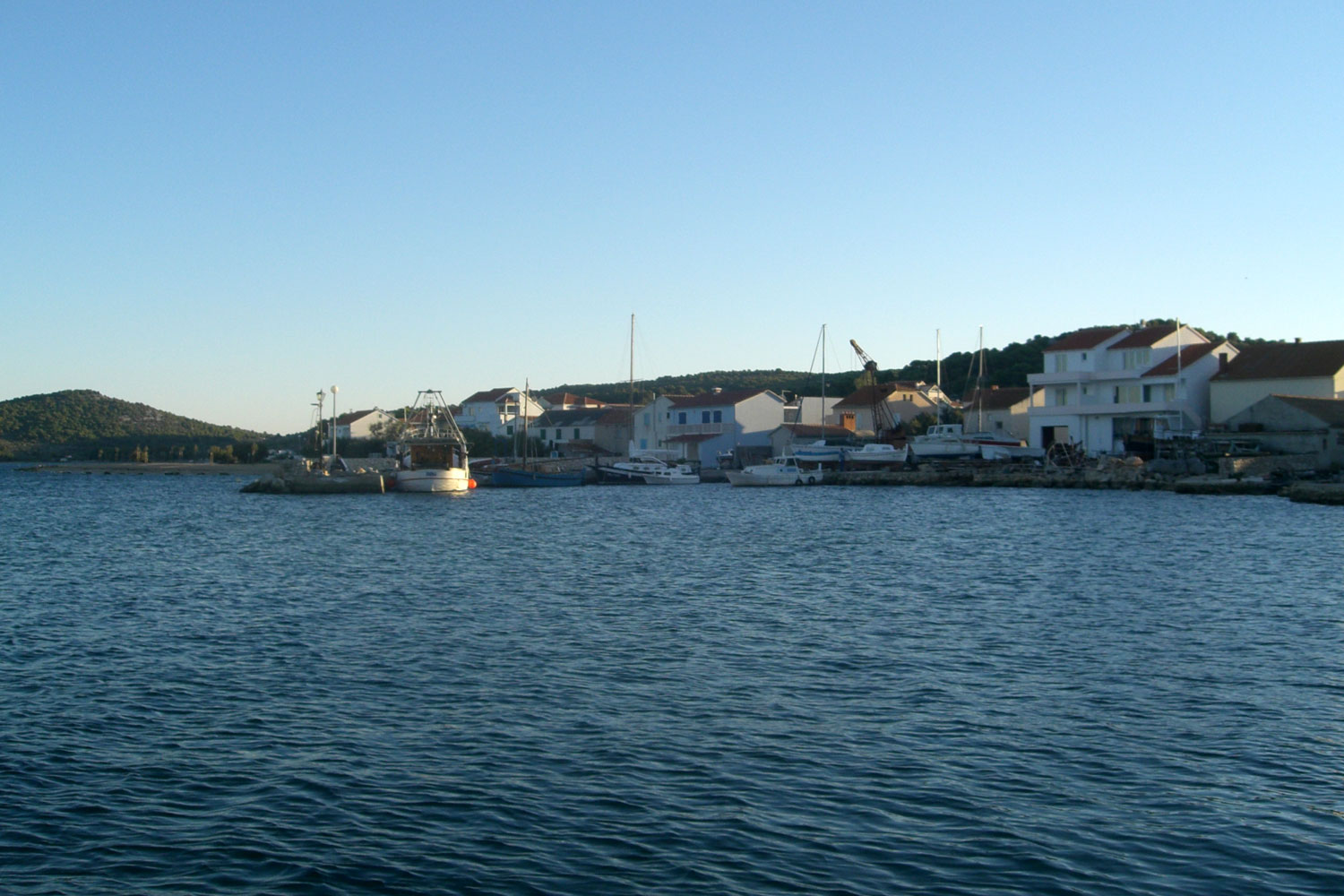 Betina, island of Murter, Croatia